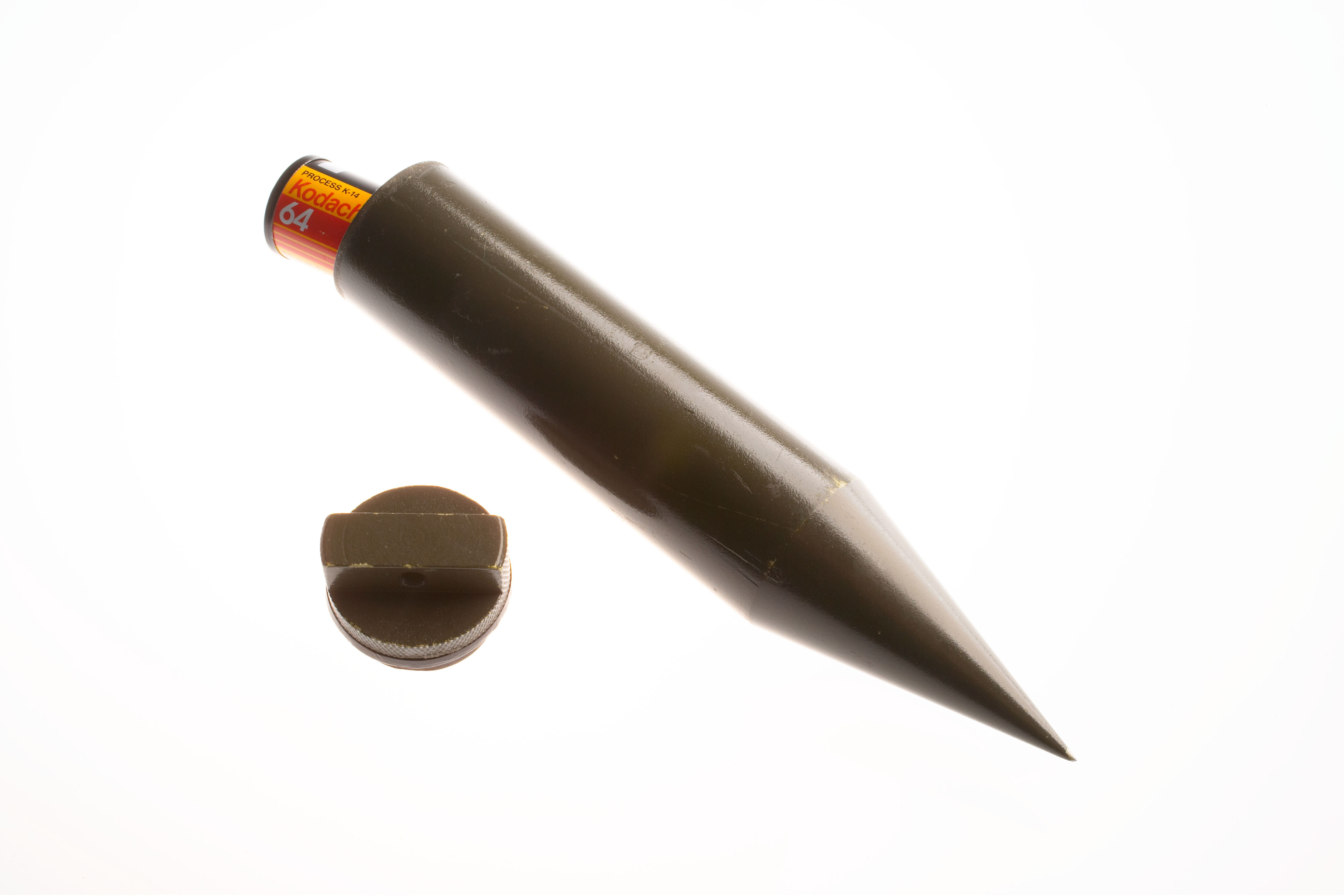 Communication between an agent and his/her handler always poses a risk. A “dead” drop allows secure communication by one person leaving and later the other person picking up material at a prearranged location. This eliminates the need for direct contact. This device is a spike that one could push into the ground. It is hollow in the middle and could contain messages, documents, or film.